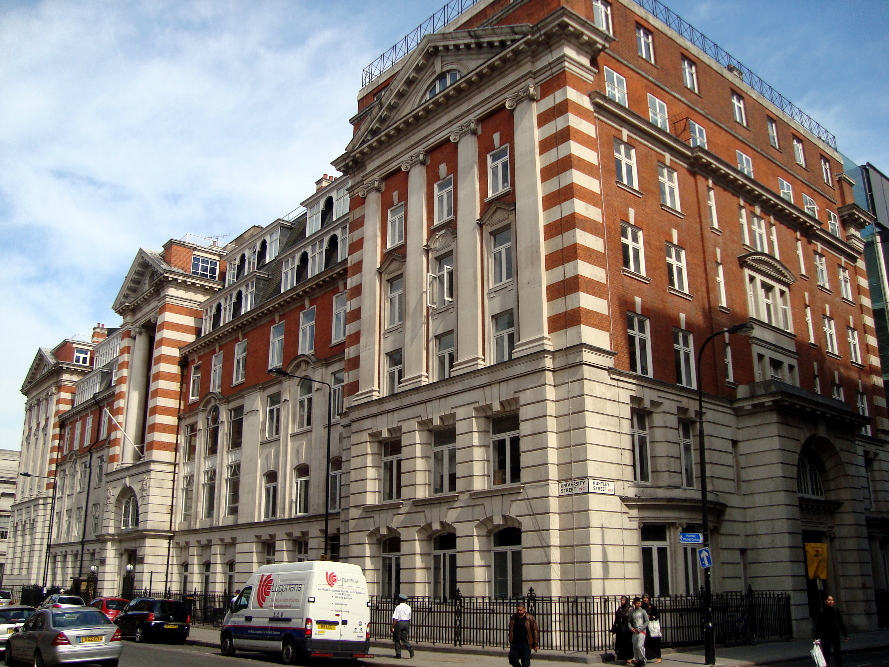 The Rockefeller Building, University College London